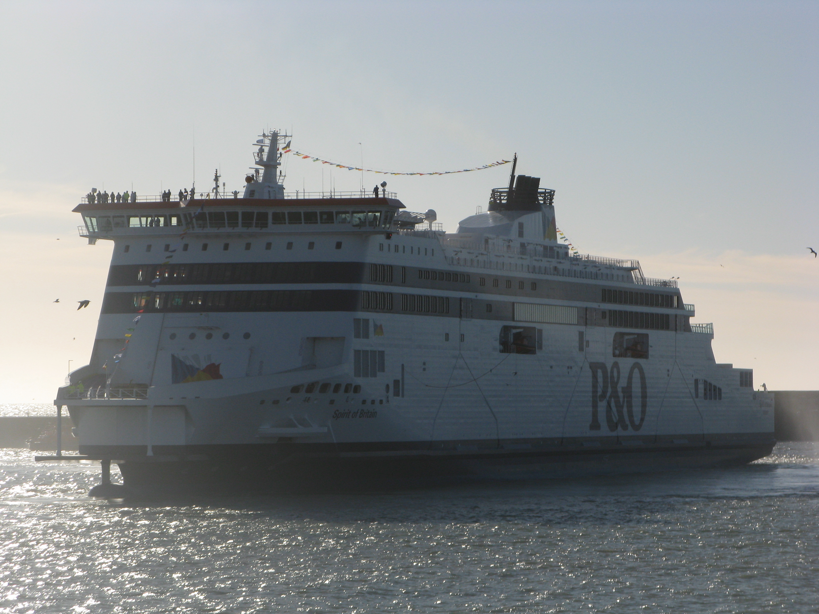 Spirit of Britain Arrival in Dover